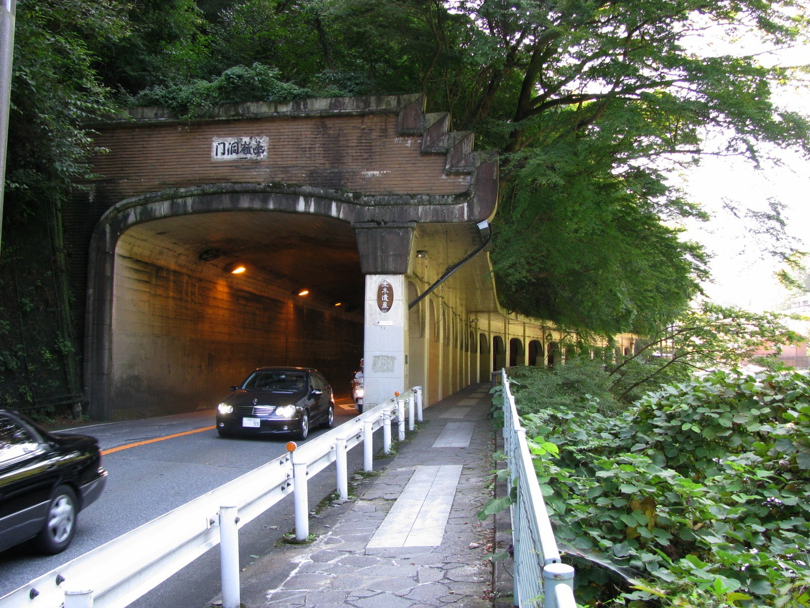 The Kanrei-dōmon built in 1931. It protects humans, transport and road from rockfall. This place is Hakone, Kanagawa, Japan.